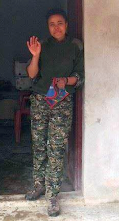 Ivana Hoffmann in Rojava. The original picture has been cropped.